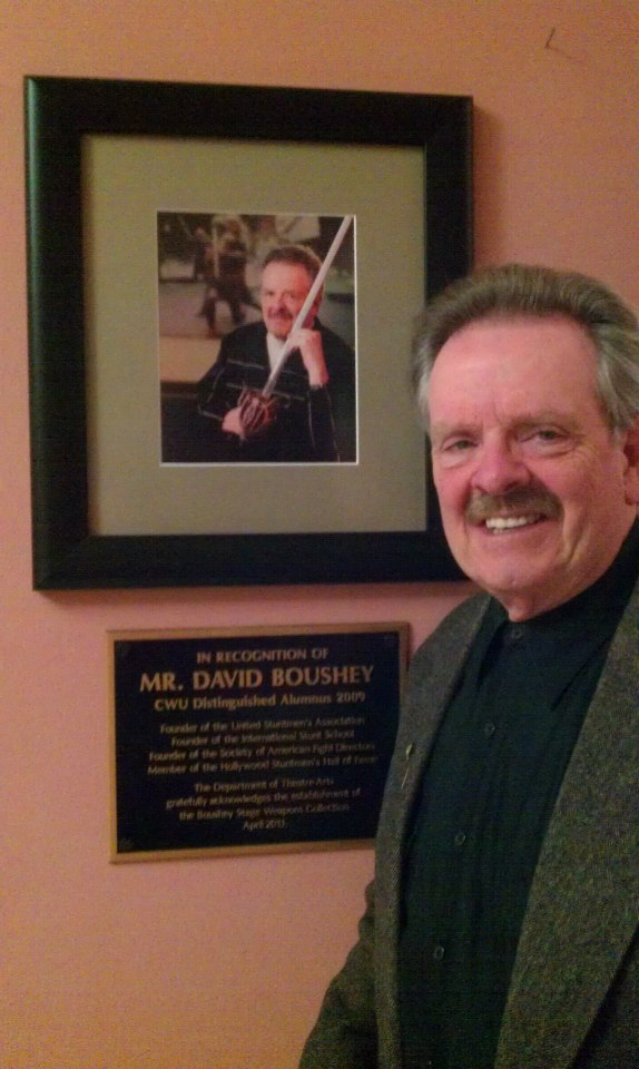 David Boushey receiving Distinguished Alumni Award from Central Washington University.